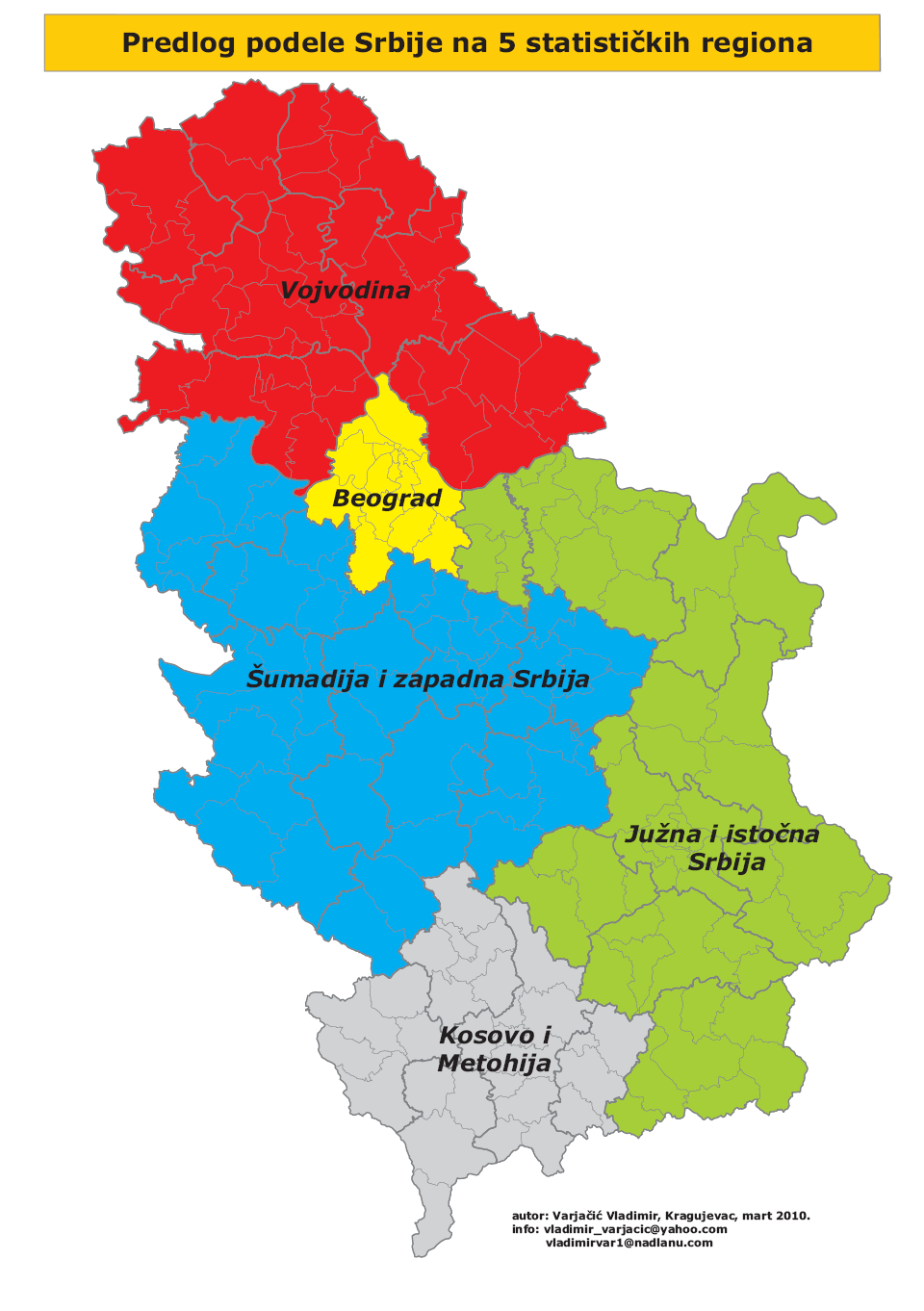 Statistical regions of Serbia.